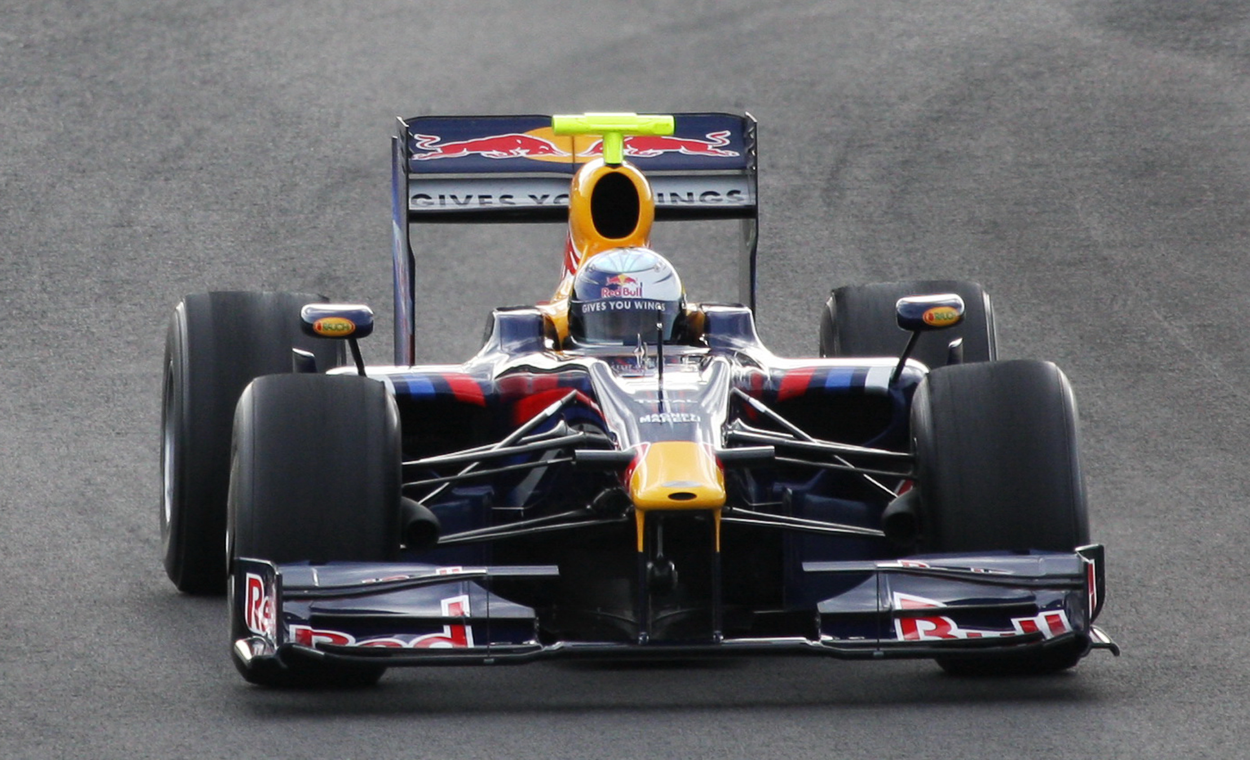 Sebastian Vettel in the Red Bull RB5, F1 testing session, Jerez 10-Feb-2009